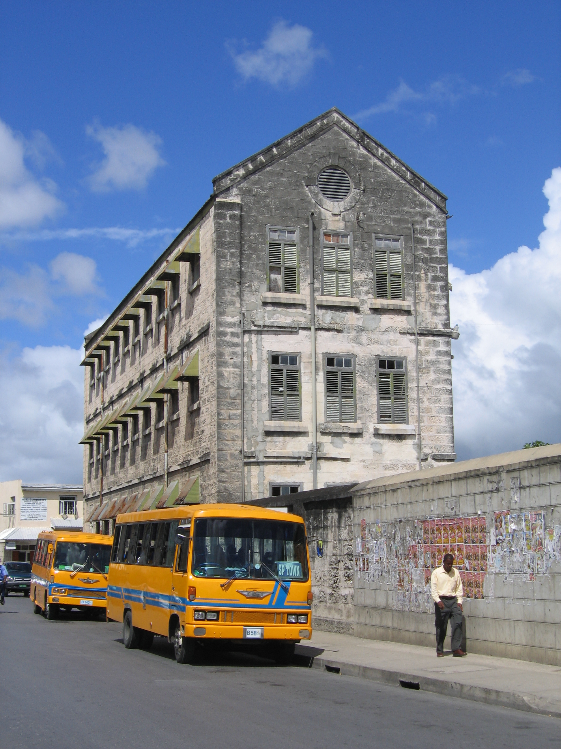 Minibuses in Bridgetown, Saint Michael, Barbados. Located in front of the former Central Police Station (Main Guard) building.